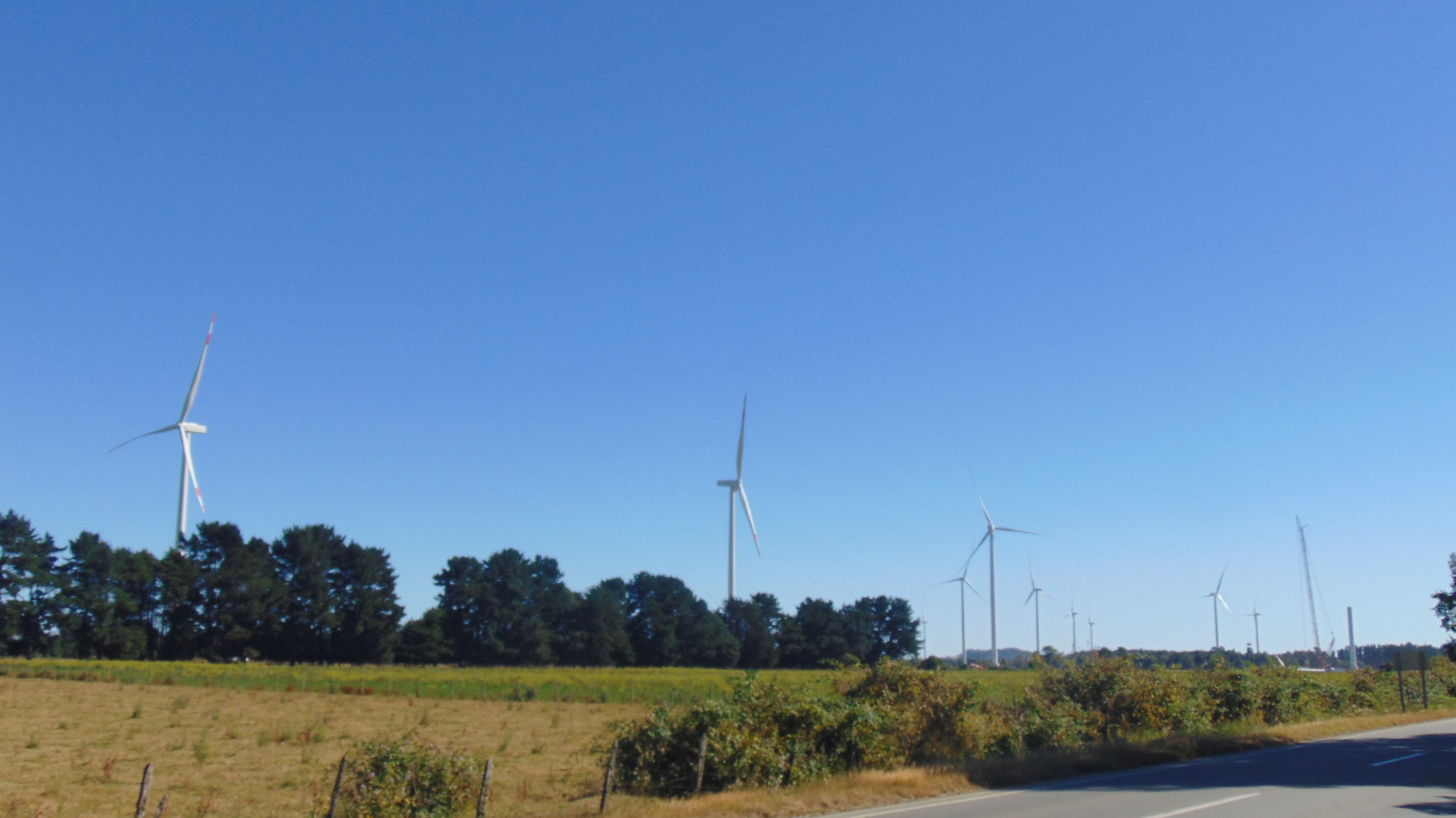 Aurora Wind Farm, Llanquihue, Chile (February 2019)